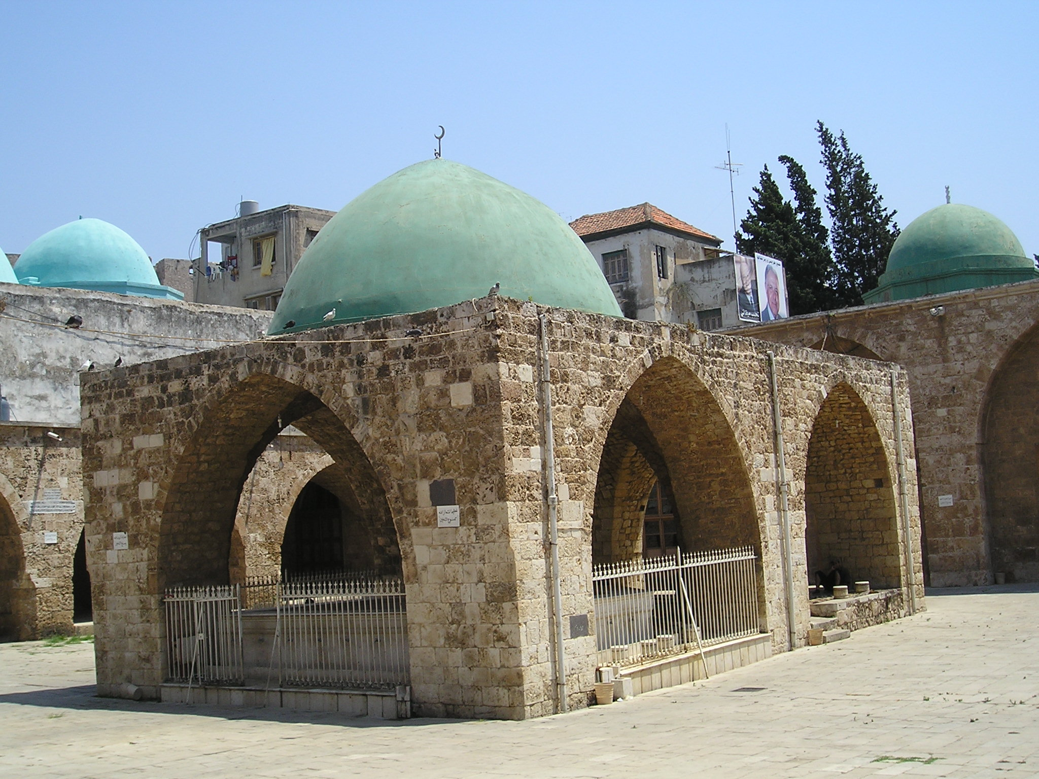 Tripoli, Lebanon - ablution fountain at the courtyard of the Great Mosque